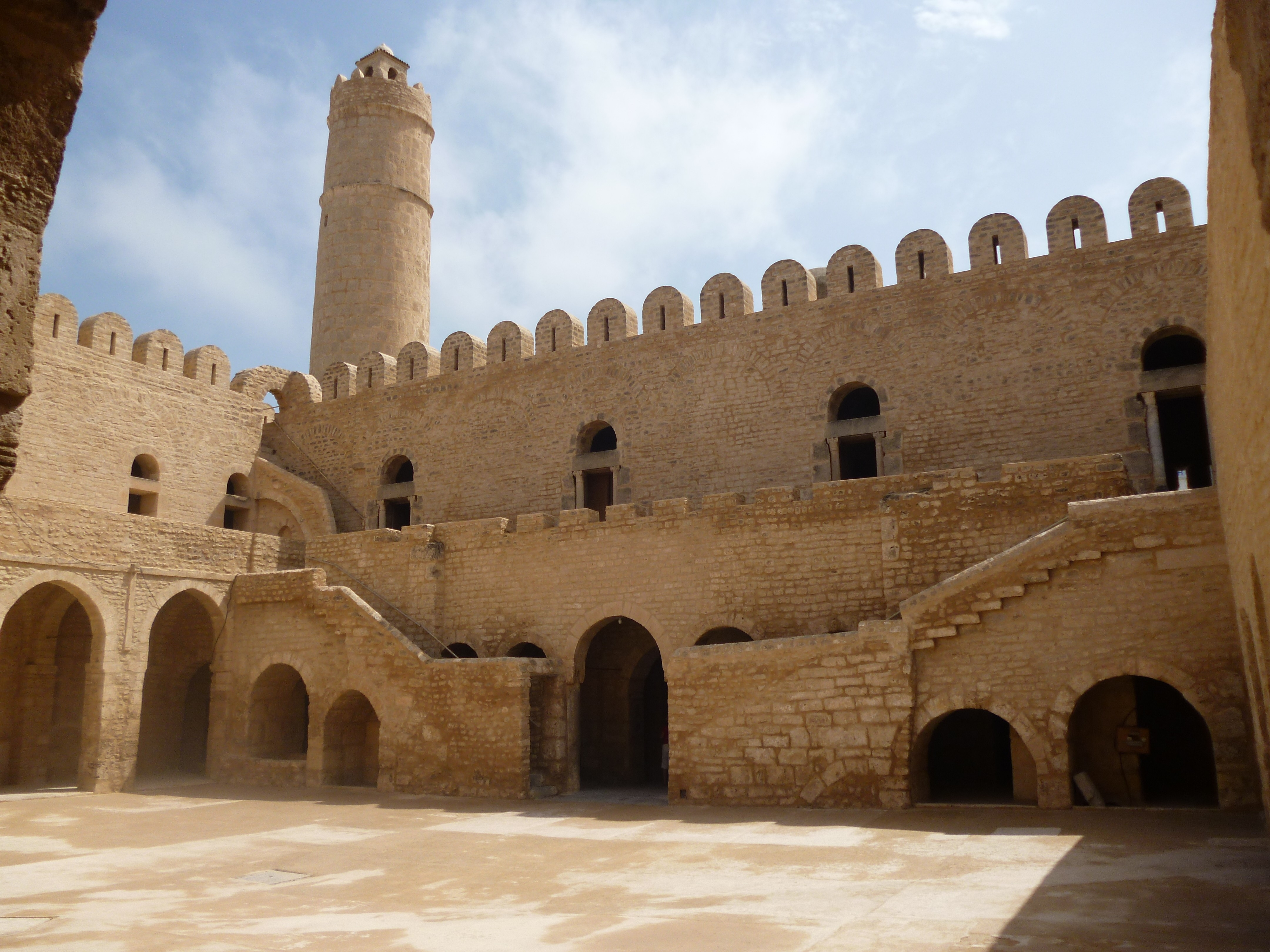 Medina of Sousse (Tunisia)